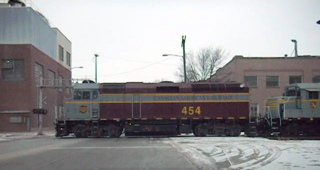 Canadian American Railway locomotive 454 at Cedar Rapids, Iowa